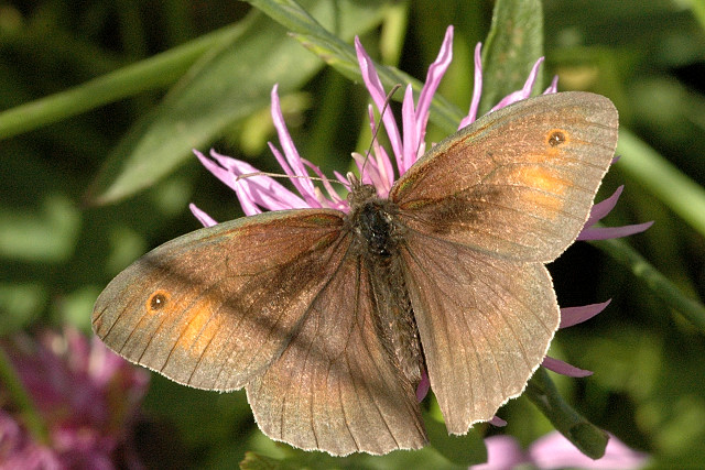 Picture taken in Commanster, Belgian High Ardennes . Species: Maniola jurtina male